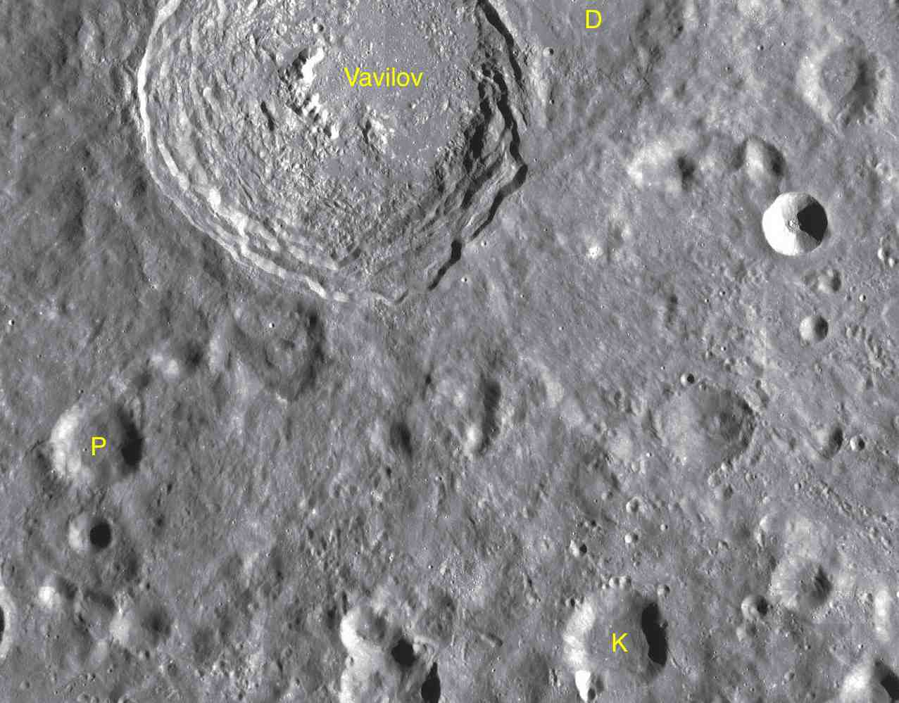 Part of the chart LAC-88 used for the presentation.